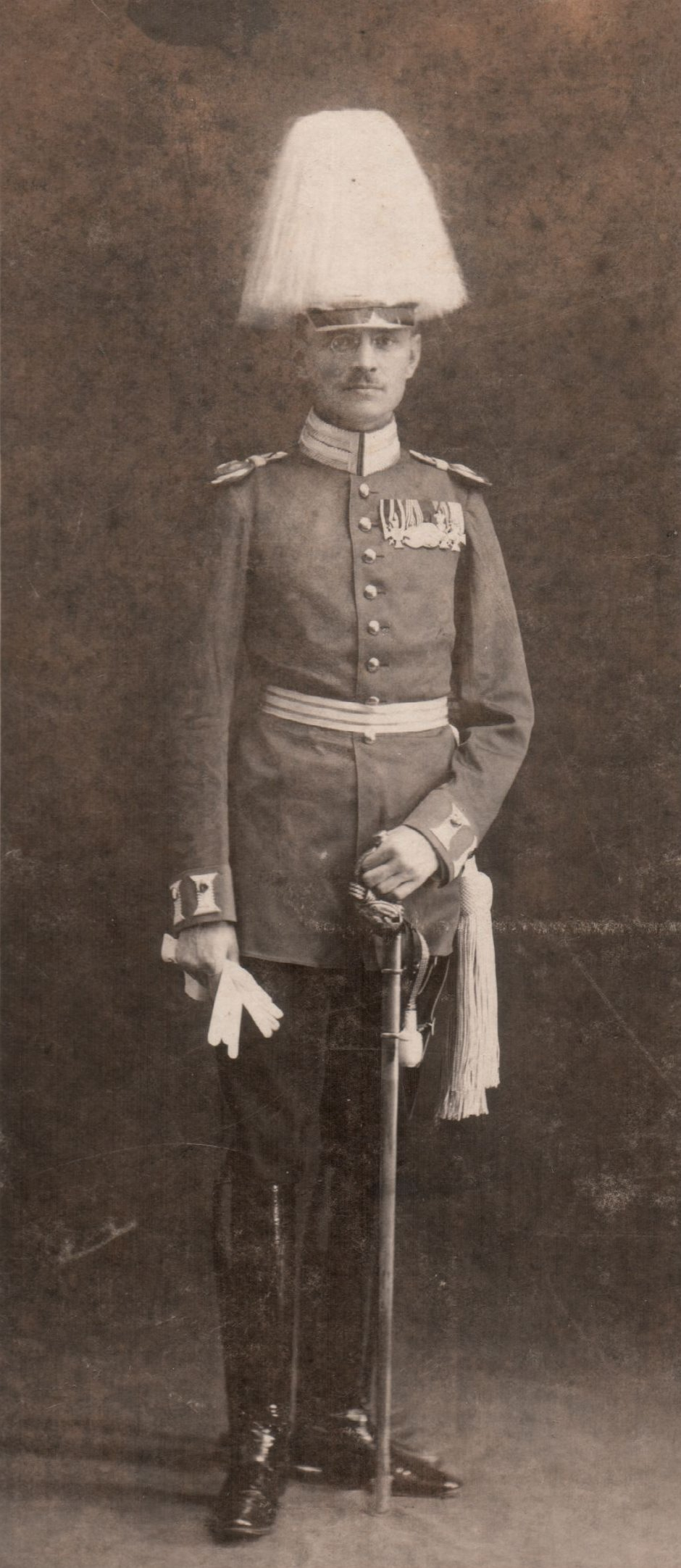 Ernst Alexander Alfred Herrmann Freiherr von Falkenhausen during his visit to the 33rd Infantry Regiment of the Imperial Army of Japan, Nagoya.